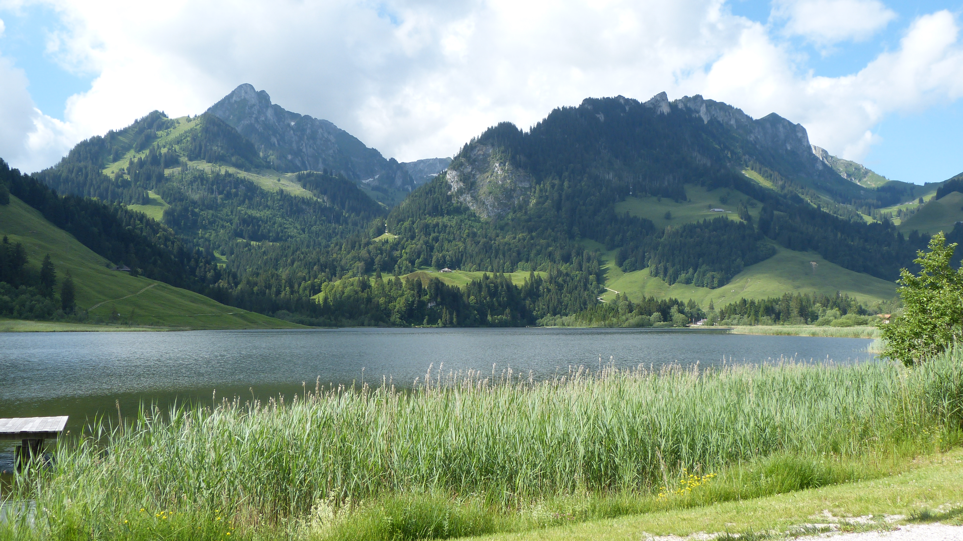 Naturpark Gantrisch, Schwarzsee